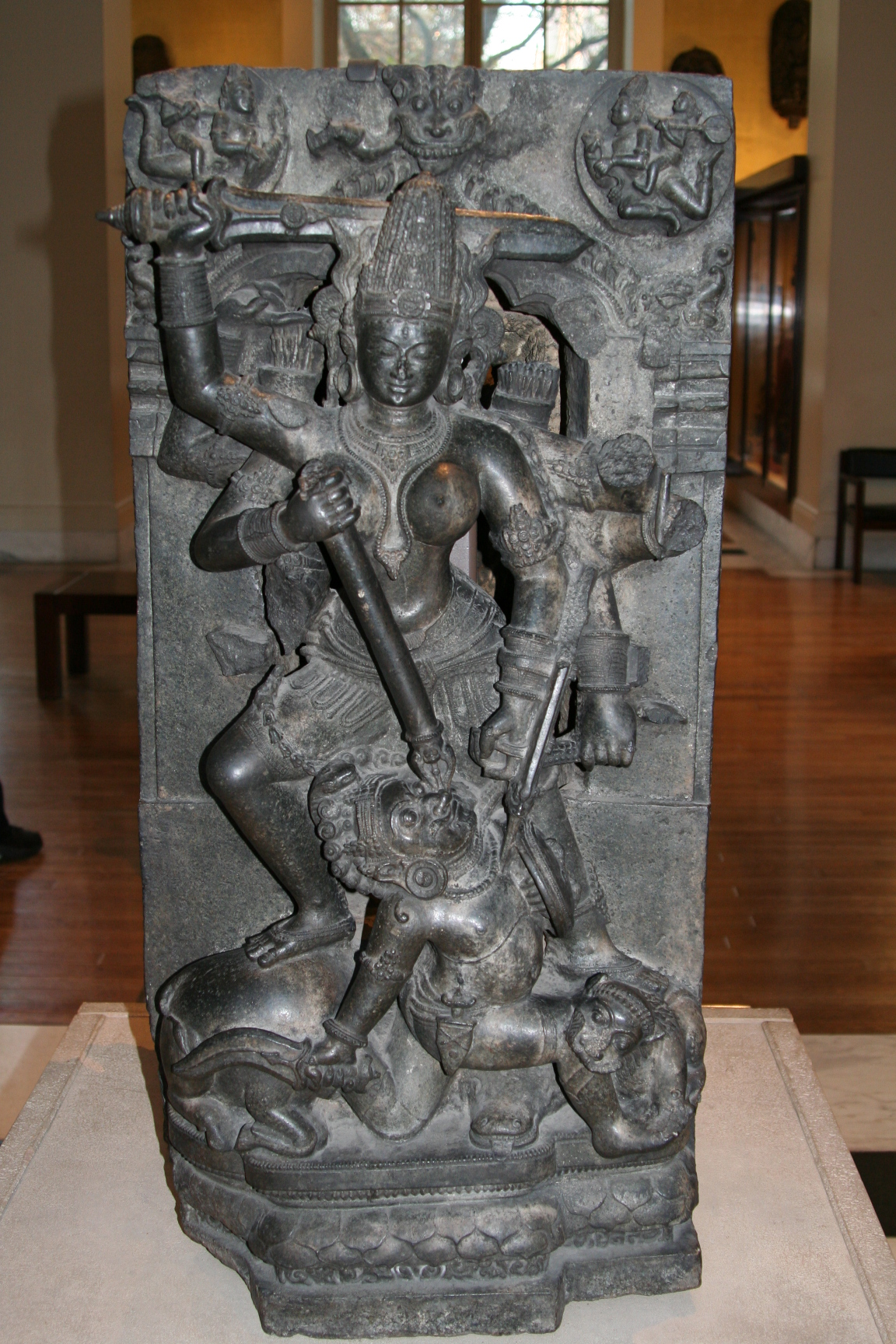 Durga. Photos taken at the British Museum - Asian Gallery